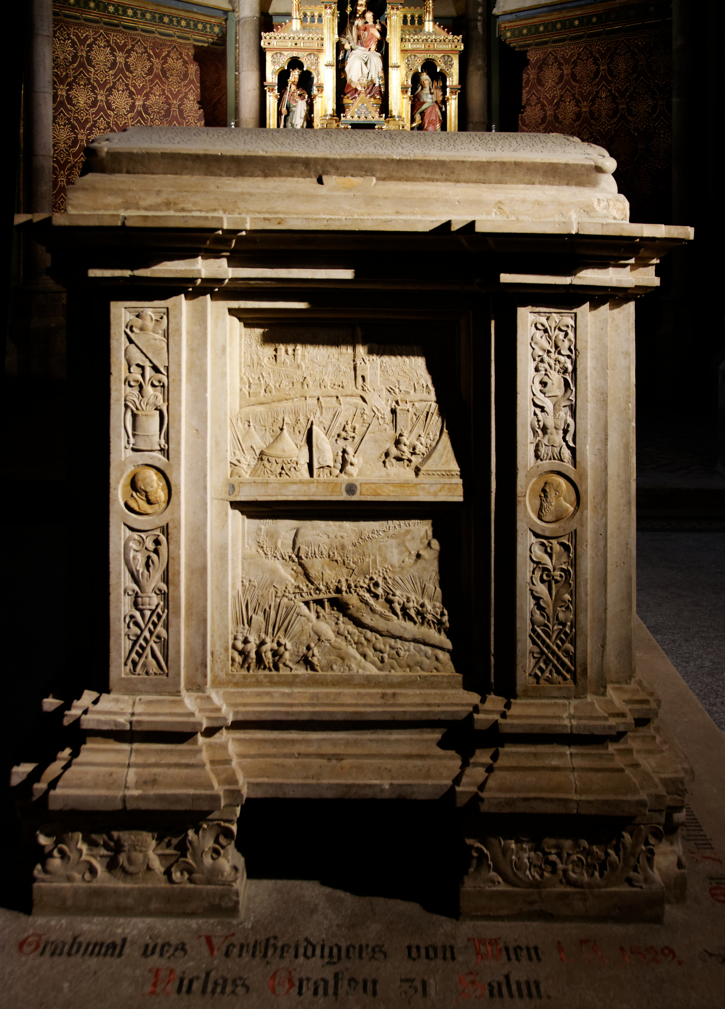 The grave of Niklas Salm, church Votivkirche in Vienna (Austria)